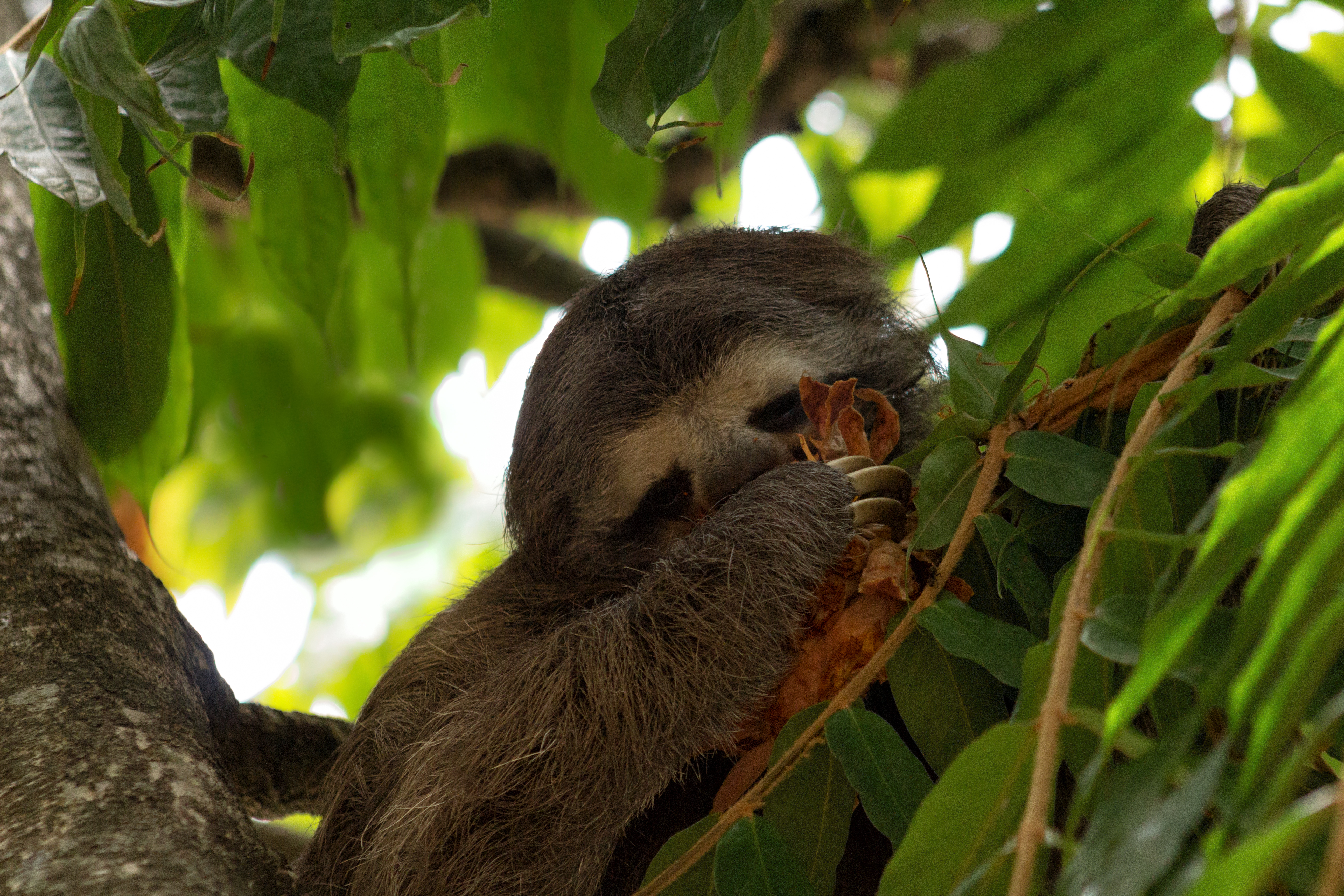 A Pale-throated sloth in Parque del Este, Caracas, Venezuela.